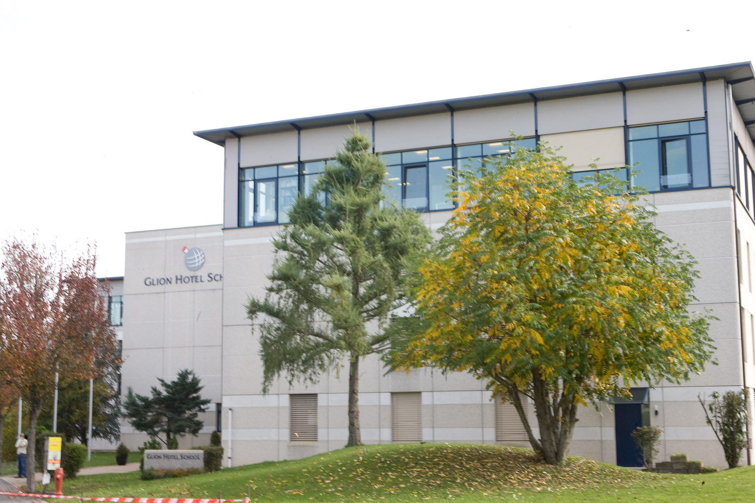 The Bulle campus is located in the town of Bulle in the Gruyère region. Opened in 1989, the Bulle campus has a range of facilities for students, including a library, study area, student lounge and catered restaurants.